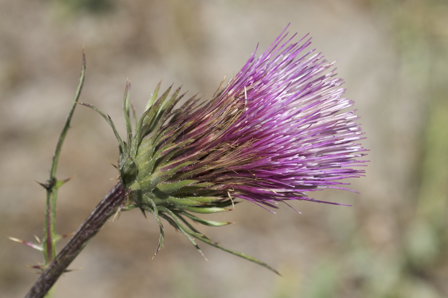 Cirsium andersonii (Anderson thistle, Rose Thistle). Photographed on the trail between Devil's Postpile and Rainbow Falls, Inyo National Forest, Madera County, California. Species native to California, Oregon, and Nevada.